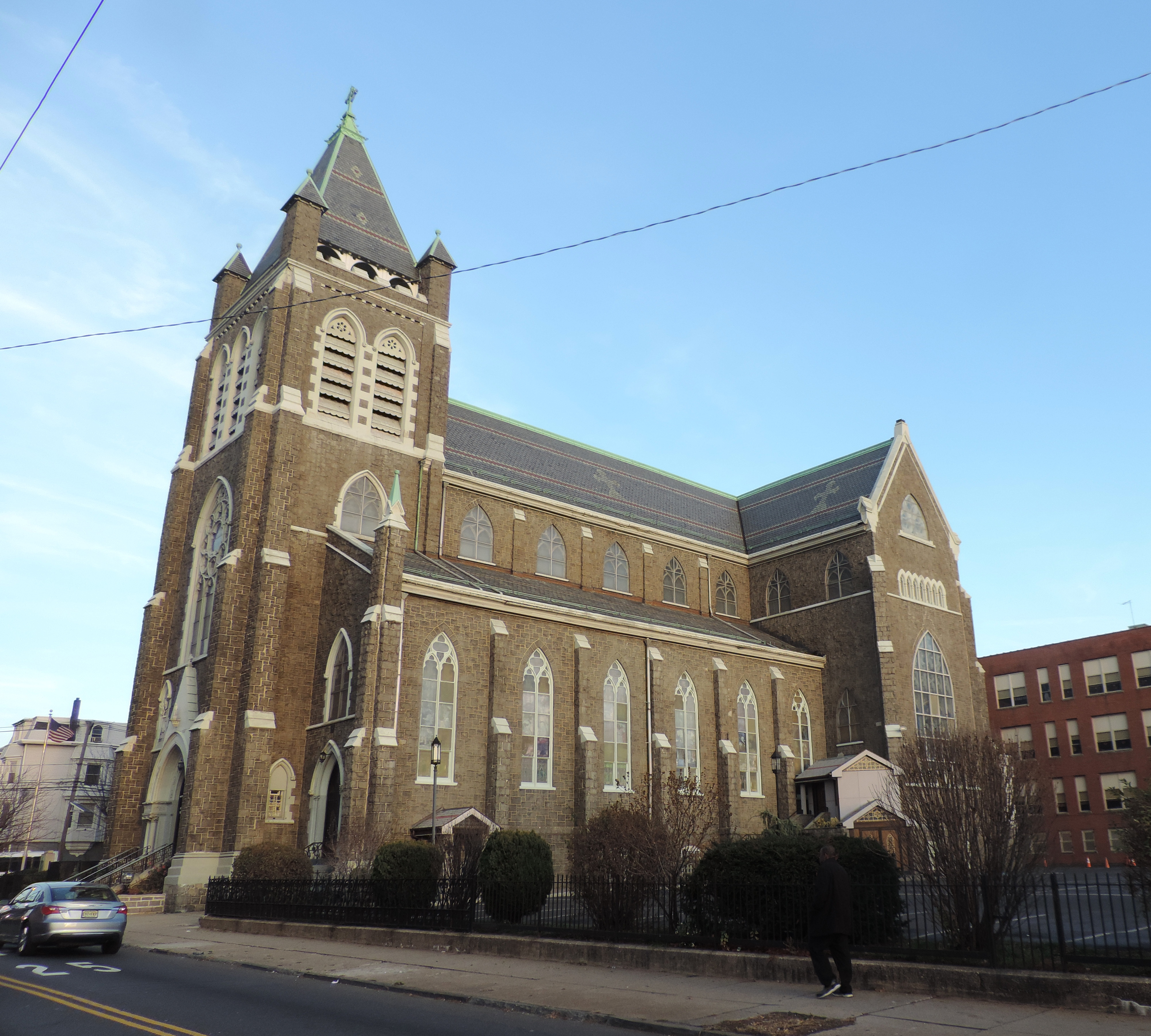 Looking east across Baldwin Avenue at St Josephs Church near dusk of a mostly sunny day